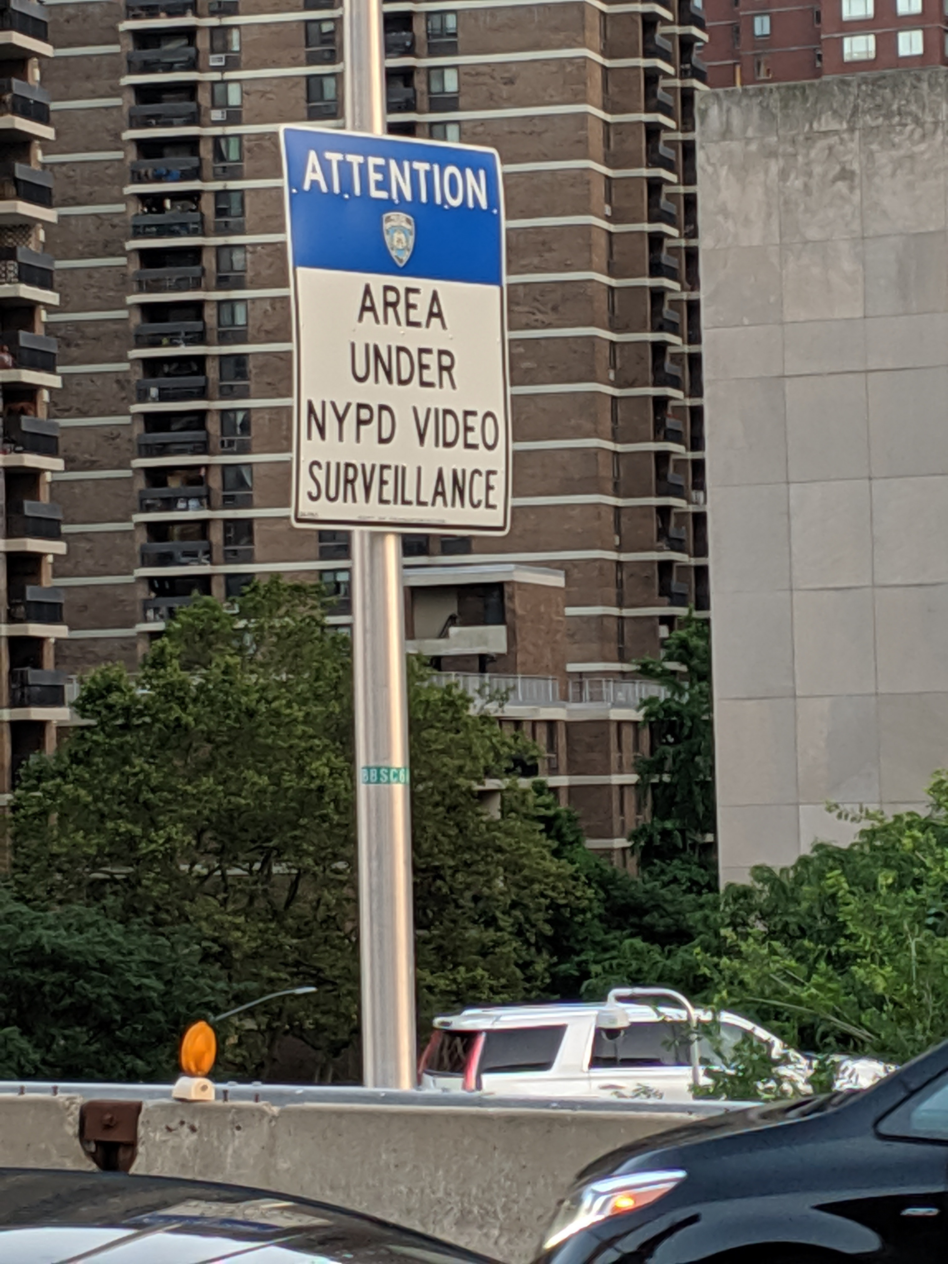 sign indicating area is under NYPD video surveillance